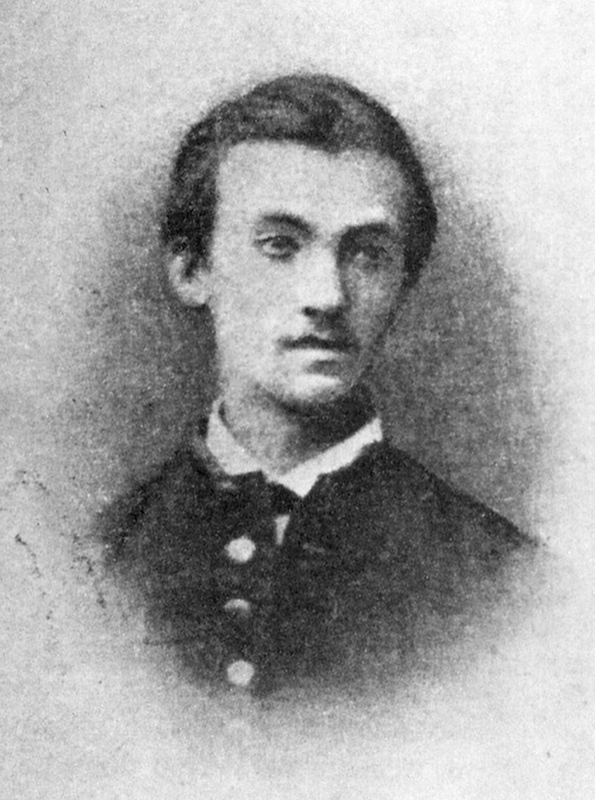 Ludwik Lejzer Zamenhof, at 19 years old (i.d. ca. 1879).